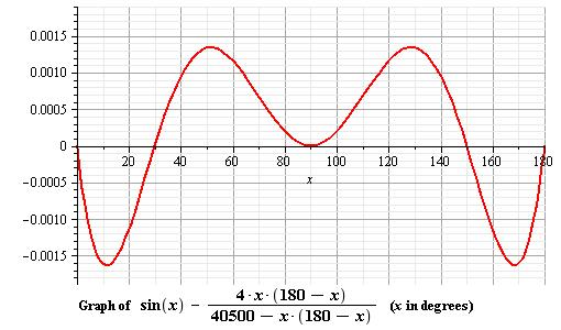 Graph of the expression sin(x) - 4x(180 - x)/(40500 - x(180 - x)) for values of x from 0 degrees to 180 degrees. Image created by me. Summary Graph of the expression sin(x) - 4x(180 - x)/(40500 - x(180 - x)) for values of x from 0 degrees to 180 degrees. Image created by me.